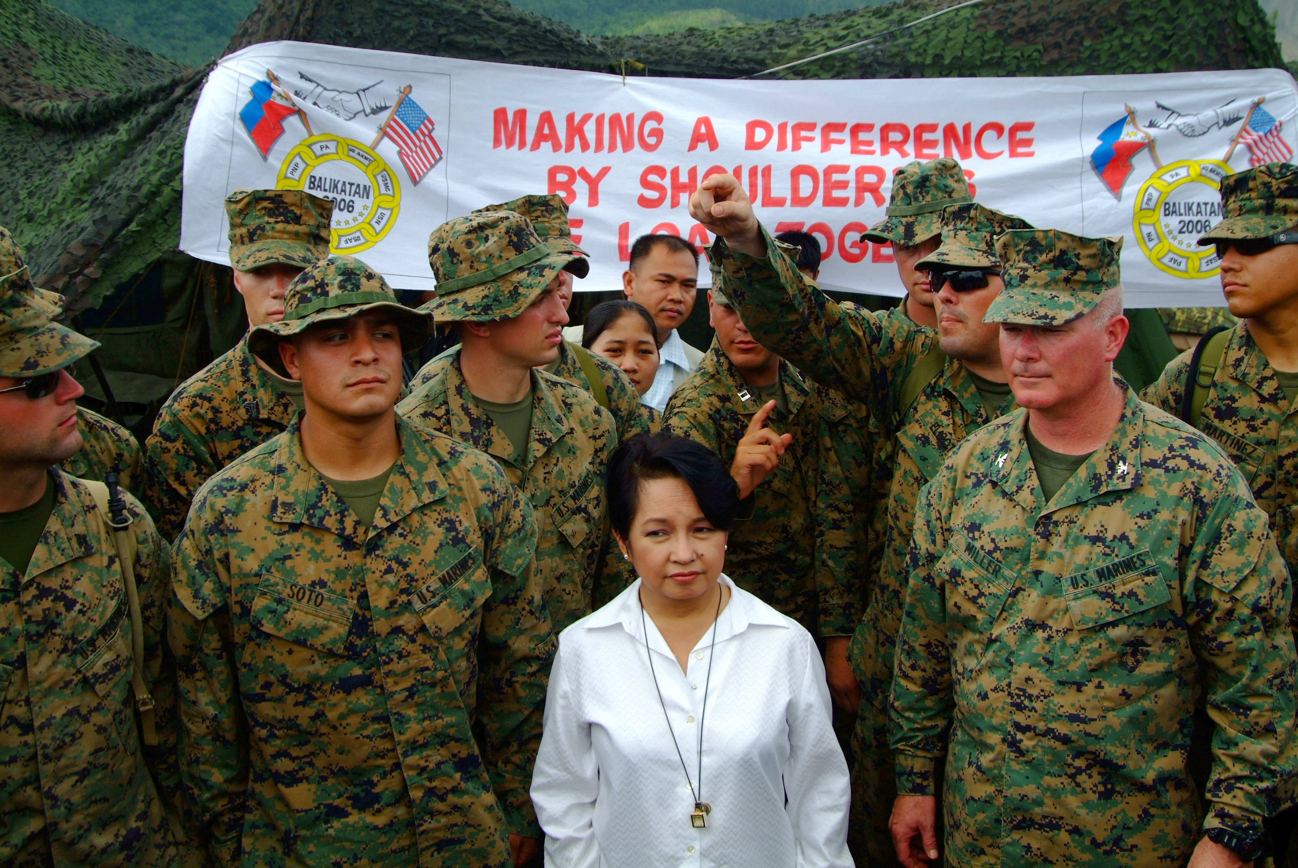 Guinsahugon Village, Republic of the Philippines (Feb. 22, 2006) - Philippine President Gloria Macapagal Arroyo meets with Commanding Officer, 31st Marine Expeditionary Unit (MEU) Col. Walter L. Miller near the site of a devastating landslide that struck southern Leyte on Feb. 17, 2006. Sailors and Marines from the Forward Deployed Amphibious Ready Group (ARG) with elements of the 31st Marine Expeditionary Unit (MEU), Joint Task Force (JTF) Balikatan and the USS Curtis Wilbur (DDG 54) arrived off the coast of Leyte Feb. 19 to provide humanitarian assistance and disaster relief to the victims of the area. U.S. Navy photo by Journalist 2nd Class Brian P. Biller (RELEASED)